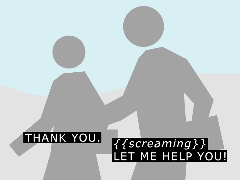 Example of a television broadcast with closed captioning.